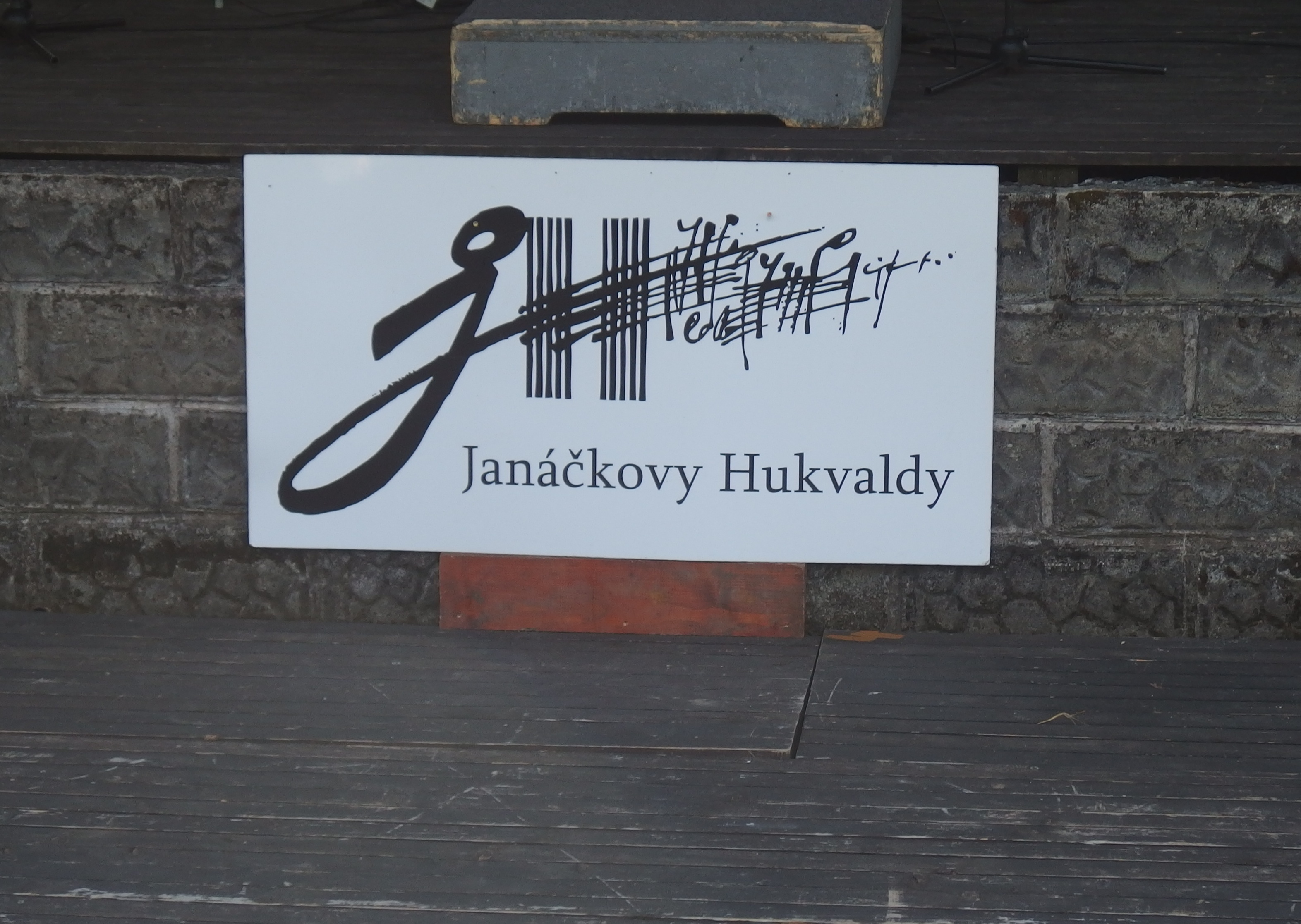 Janáčkovy Hukvaldy 2016, a music festival in Hukvaldy, Czech Republic.